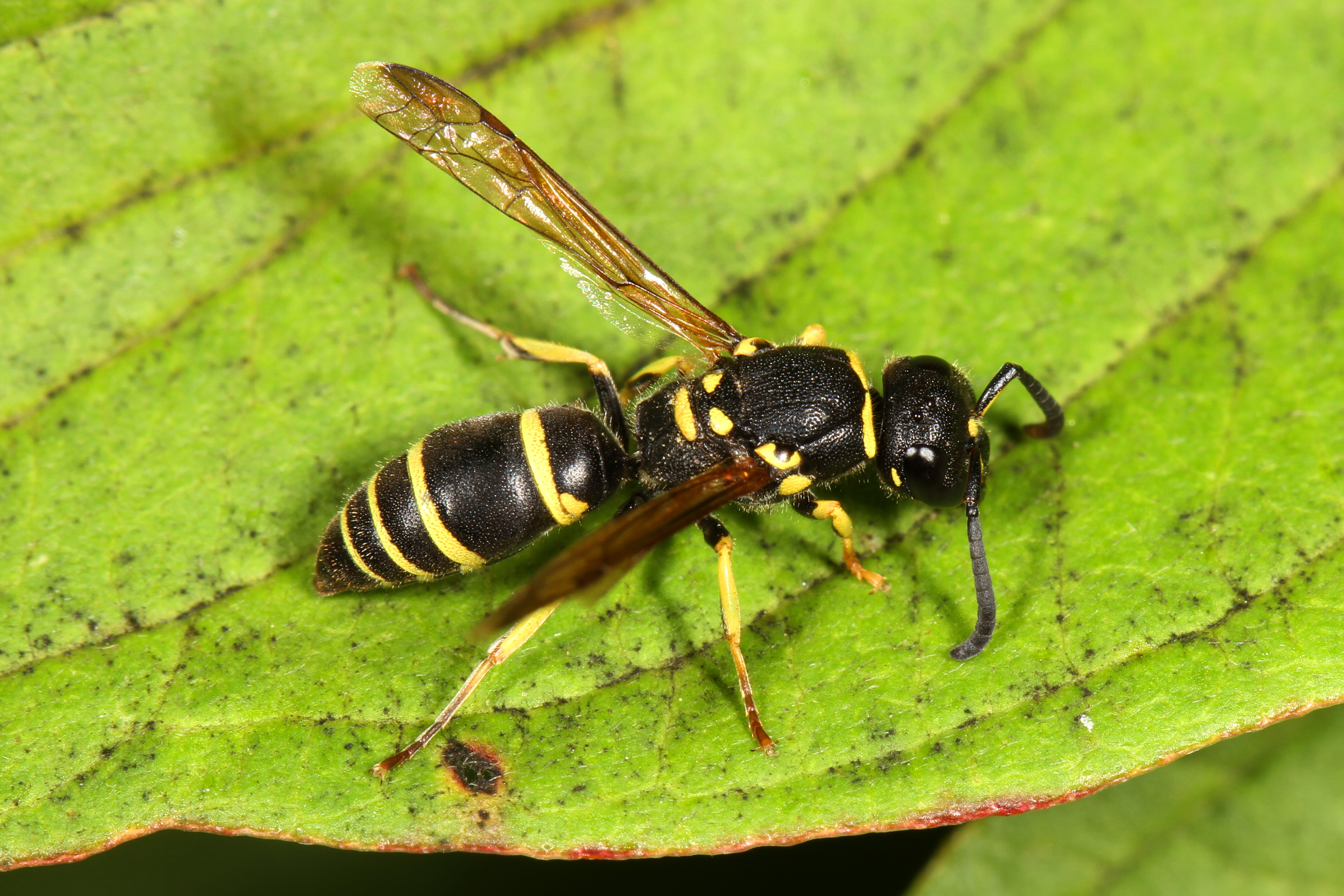 Wasp - Ancistrocerus adabiatus, Coldstream, British Columbia